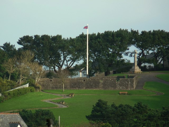 Chudleigh Fort, East the Water. Originally an eight gun fort erected in 1643 in the Civil War by Captain Chudleigh to defend Bideford, this folly was built in the mid-19th century on the same site with spaces for 14 guns.